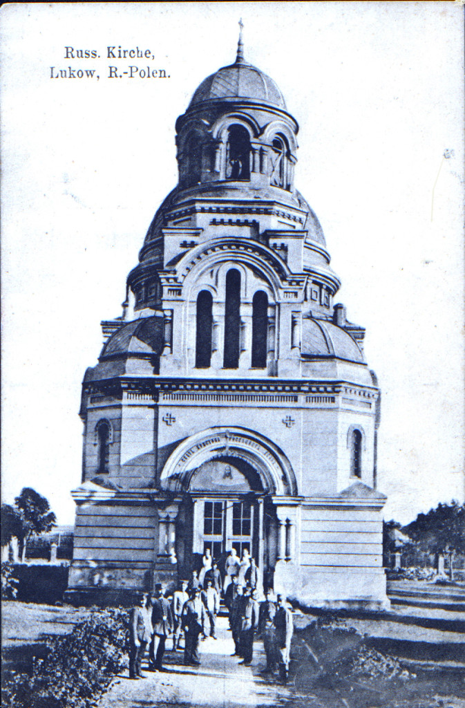 Orthodox church in Łuków